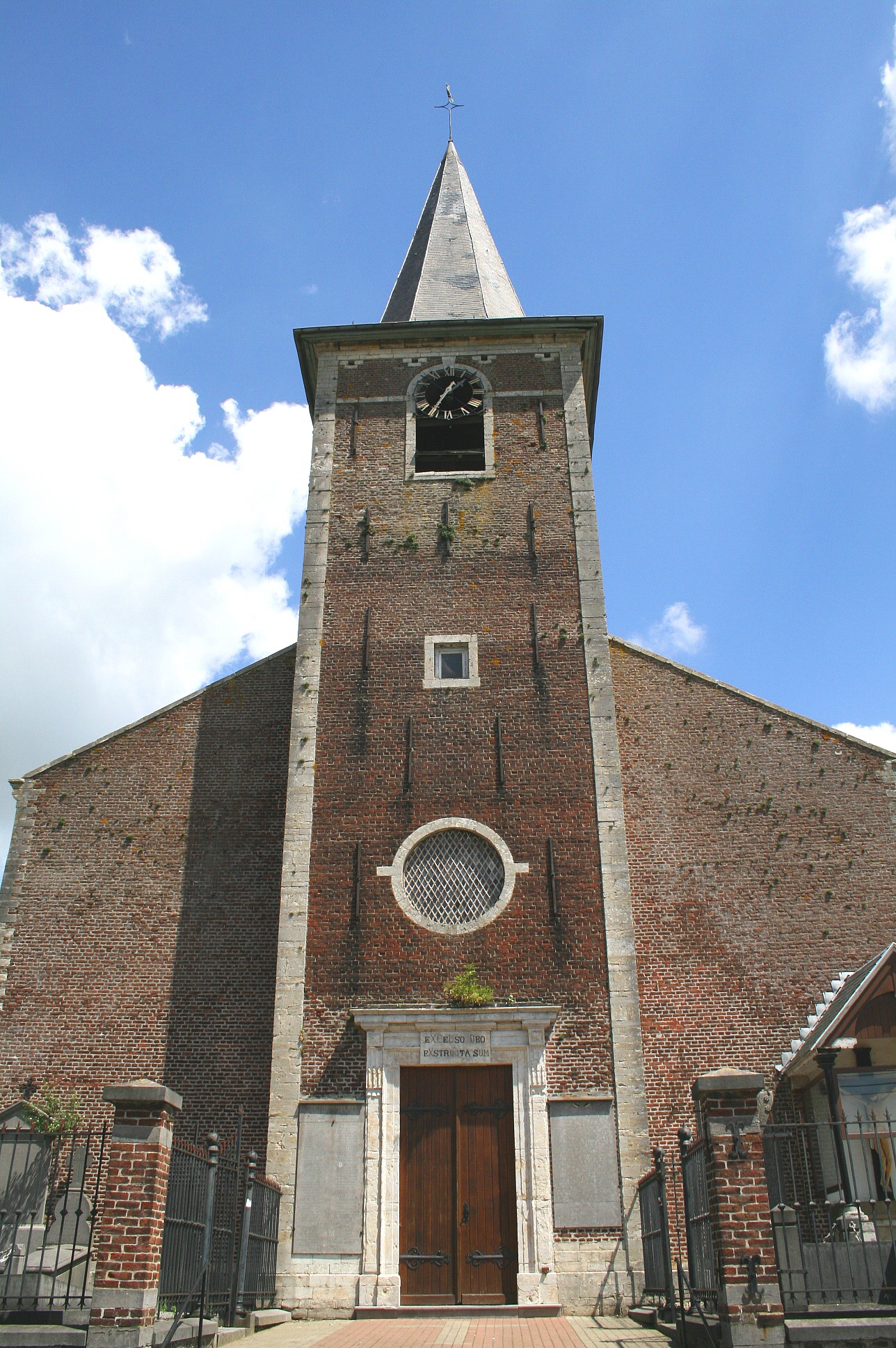 Incourt, the Saint Peter church (1780). Walon: Incoûrt, l'èglîje Sint-Pîre (1780).